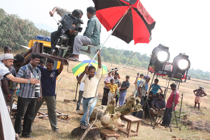 De Nova Location Stills